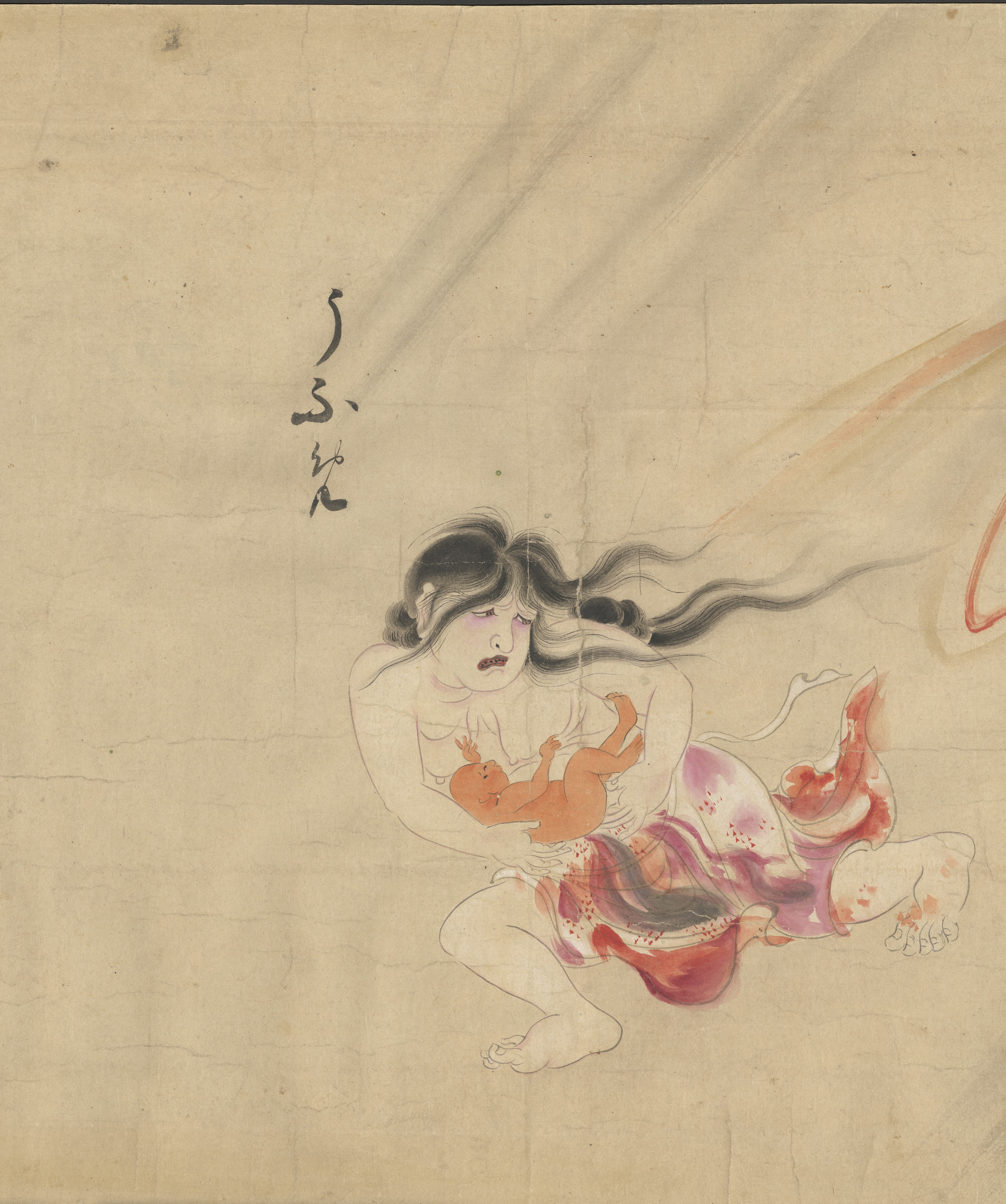 Ubume うふめ from Bakemono no e (化物之繪, c. 1700), Harry F. Bruning Collection of Japanese Books and Manuscripts, L. Tom Perry Special Collections, Harold B. Lee Library, Brigham Young University.